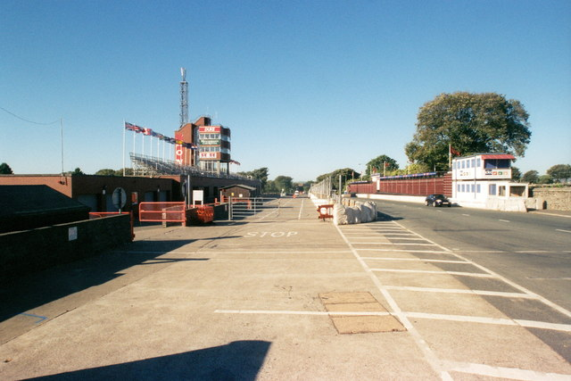 The Pits Isle of Man TT pits and main grandstand